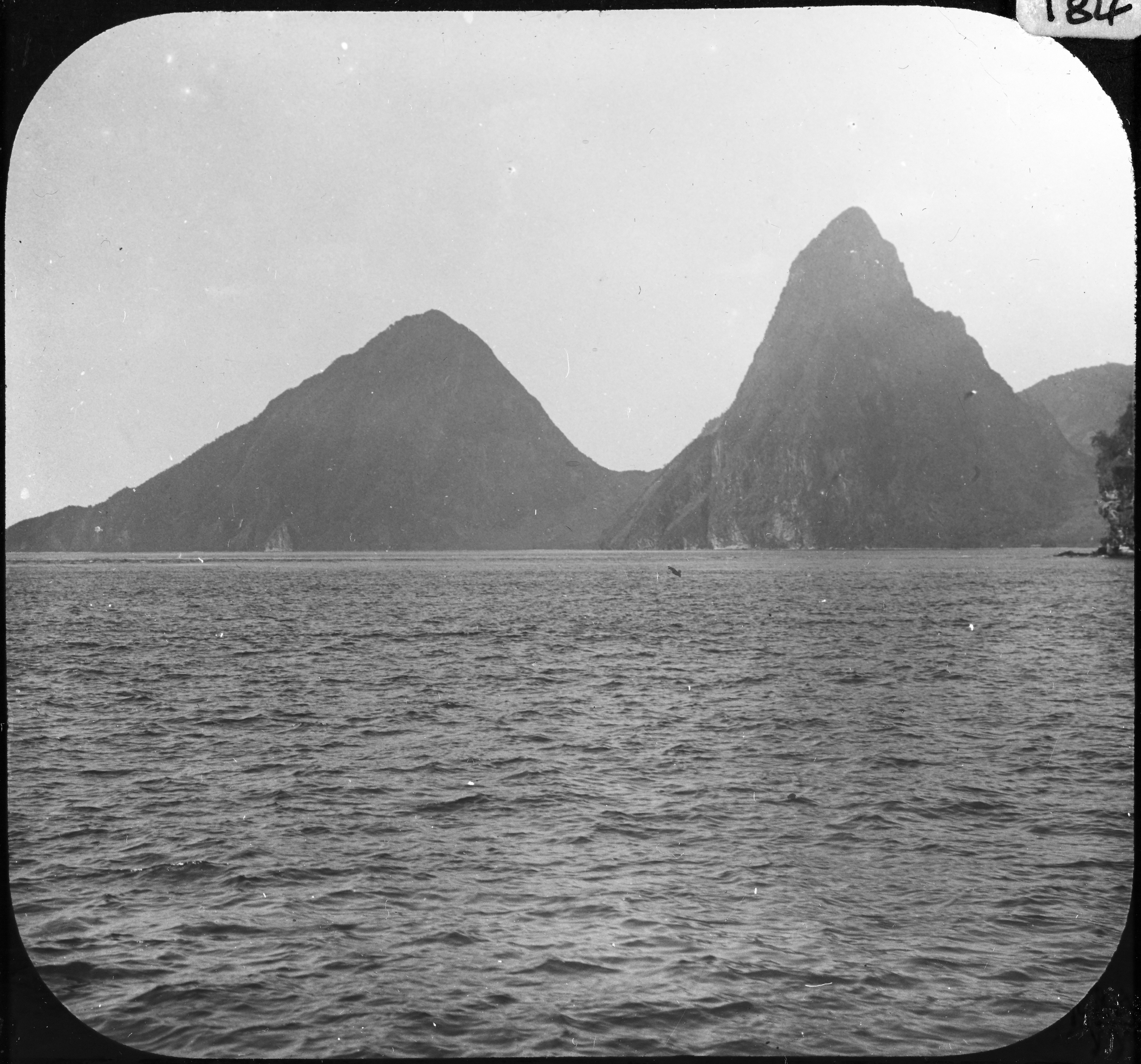 Twin peaks seen from the sea. Volcanic plugs.